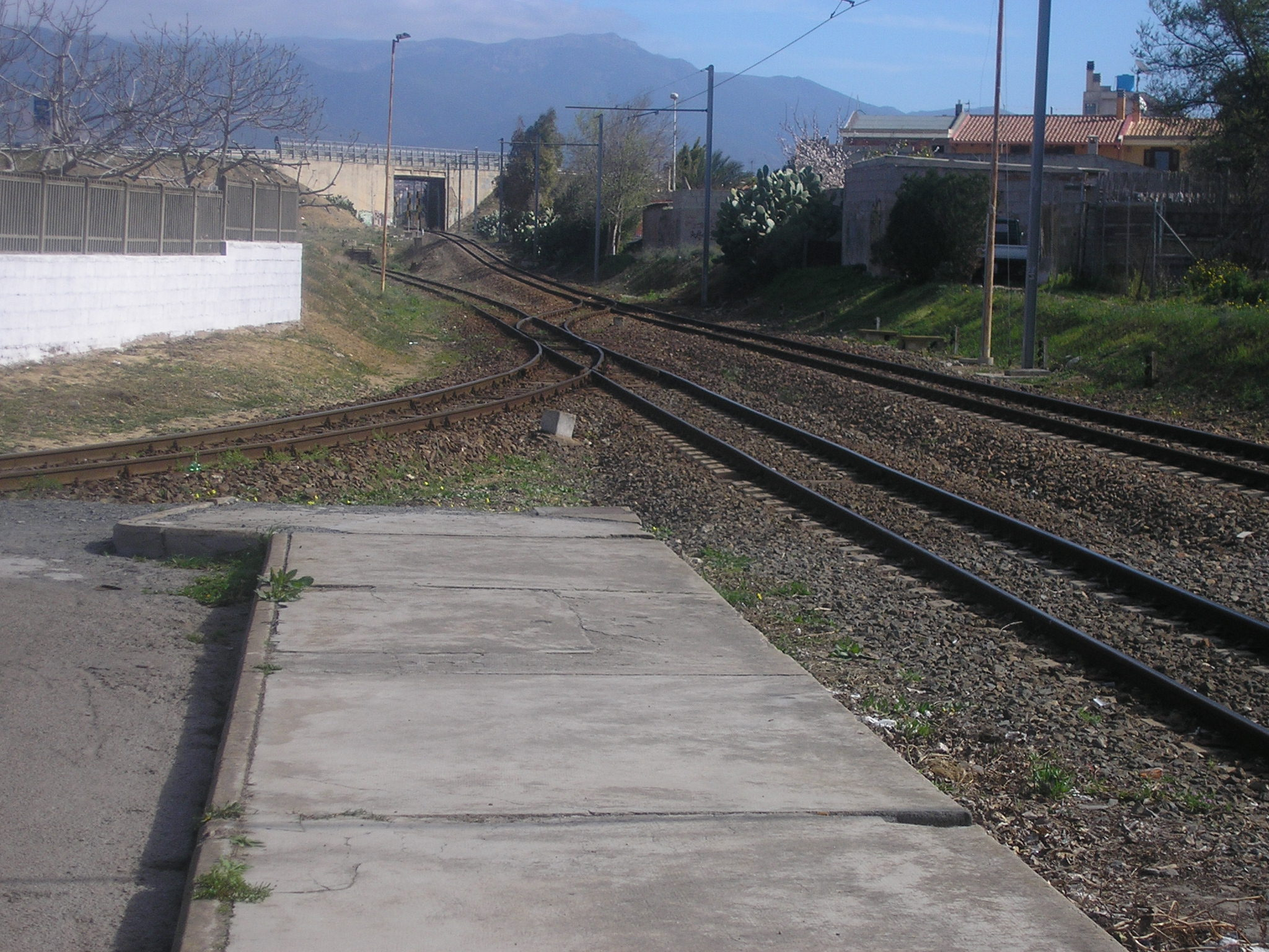 Tracks inside the station of Monserrato, Sardinia, Italy, looking to Settimo San Pietro. The one in close-up leads inside the station garages